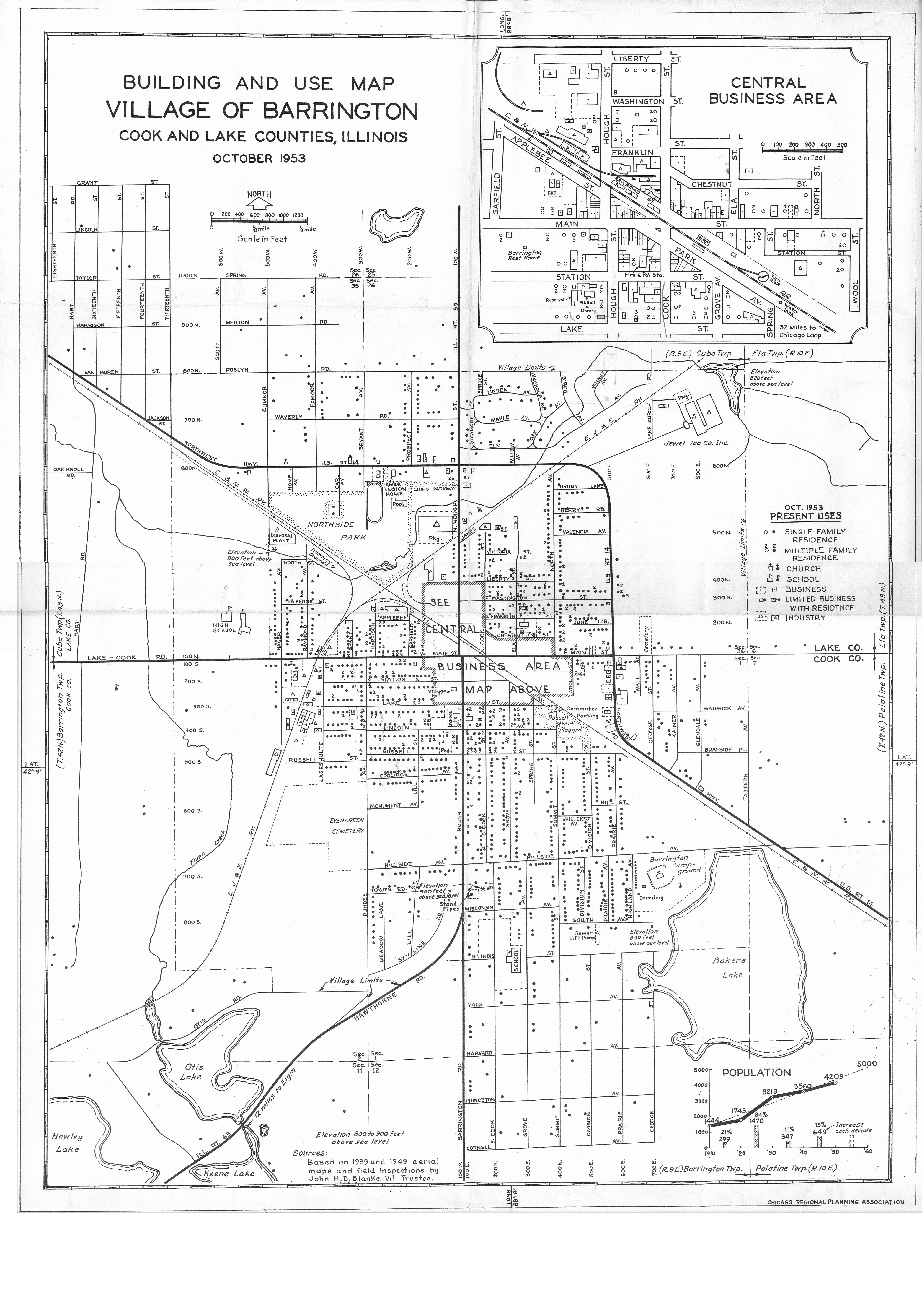 Shows all the public facilities and private buildings in Barrington Illinois as existed in October 1953